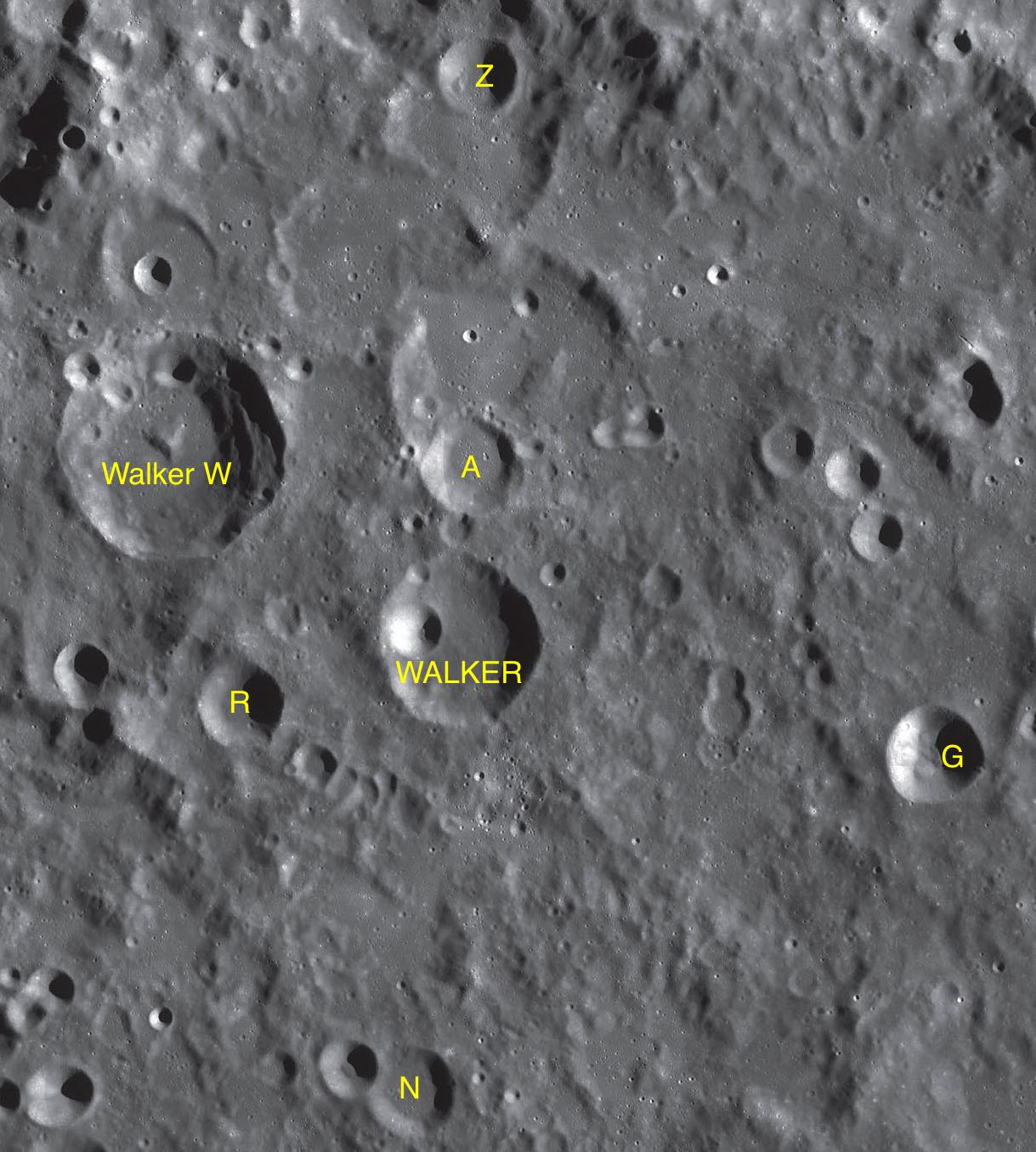 Part of the chart LAC-105 used for the presentation